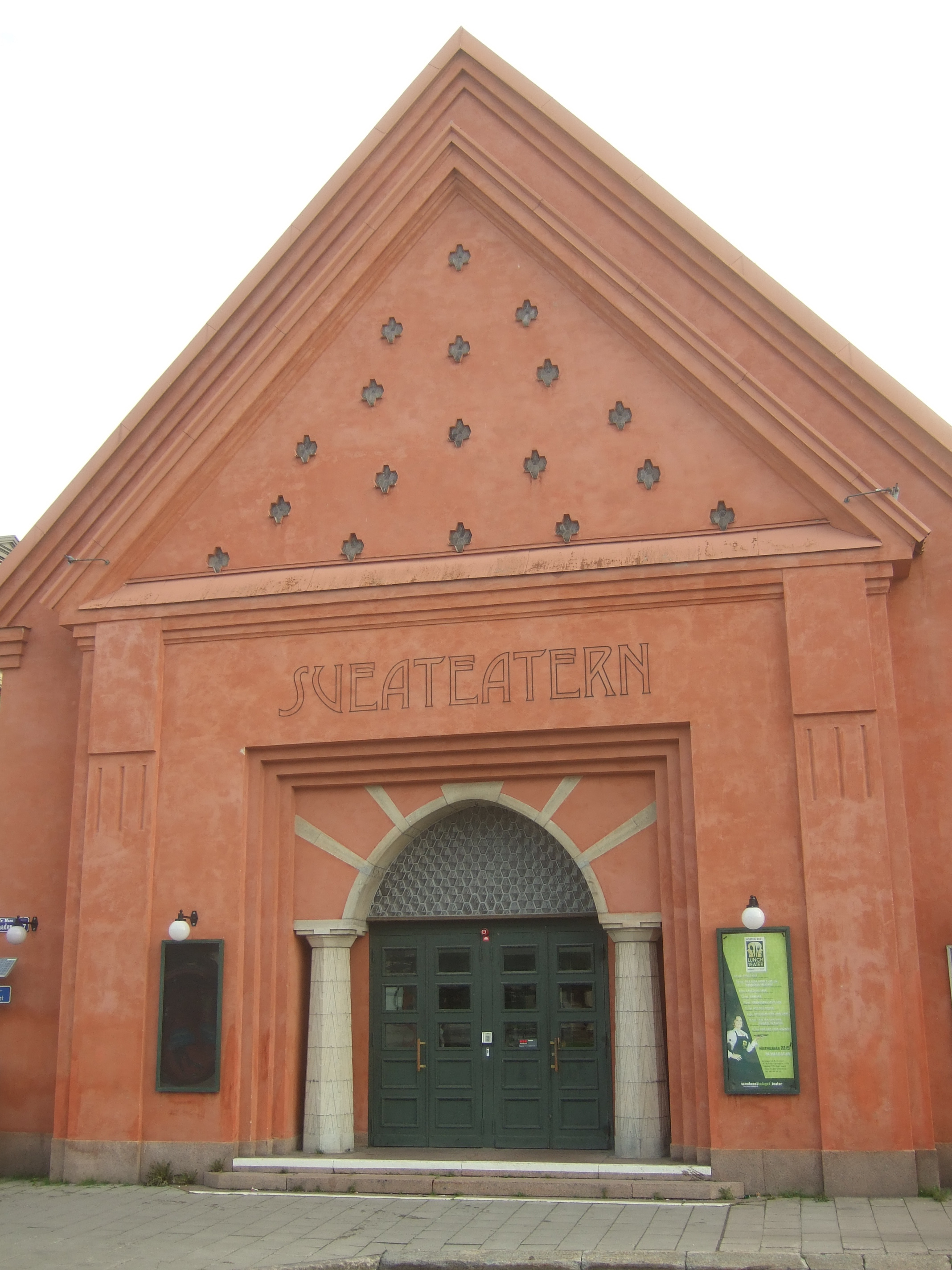 The house of "Biografteatern Svea" at Esplanaden 15 in Sundsvall, viewed from west